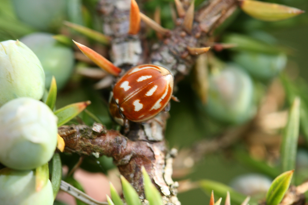 Striped Ladybird (Myzia oblongoguttata)